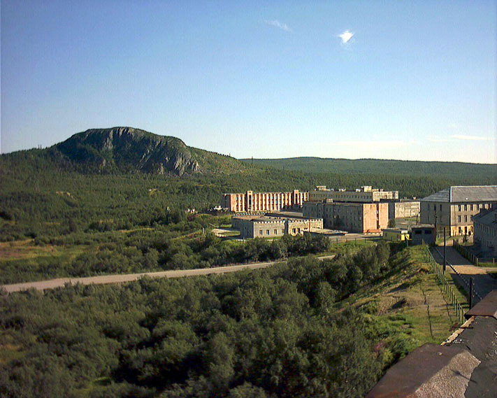 Luostary, Murmansk Oblast, Russia